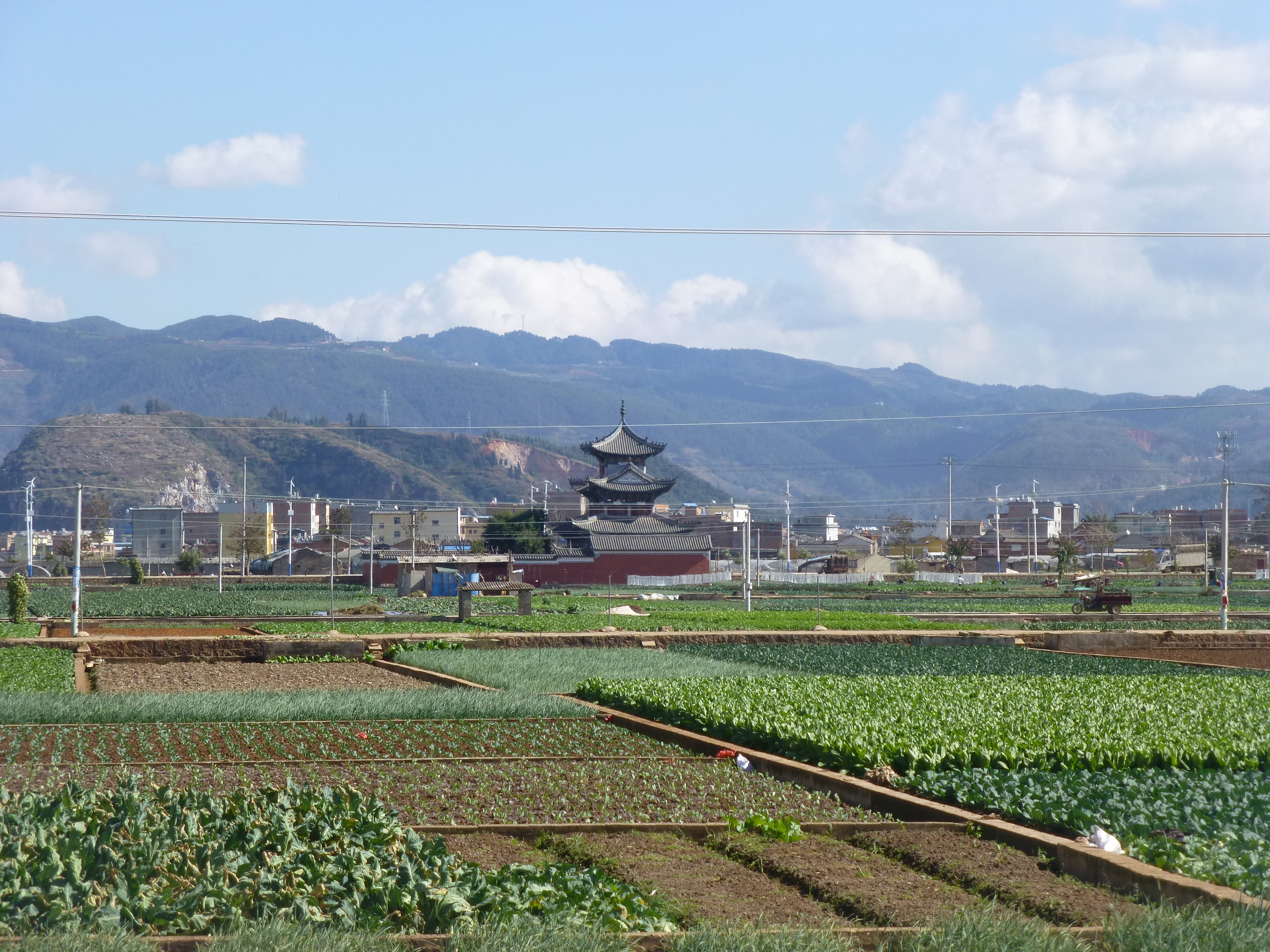 The semi-urban, semi-agricultural area on the north side of Tonghai County seat. A mile-wide strip of fertile land between Tonghai's urban core and Qilu Lake's embankment is intensively farmed for vegetables.